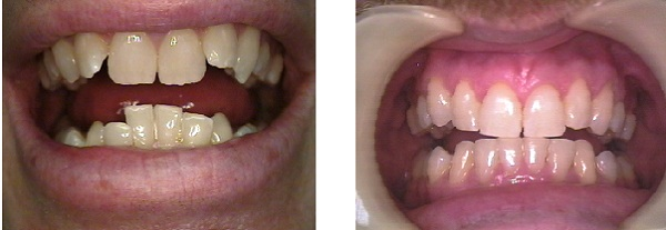 Before and After Photos following Orthodontic Treatment - Teeth Braces